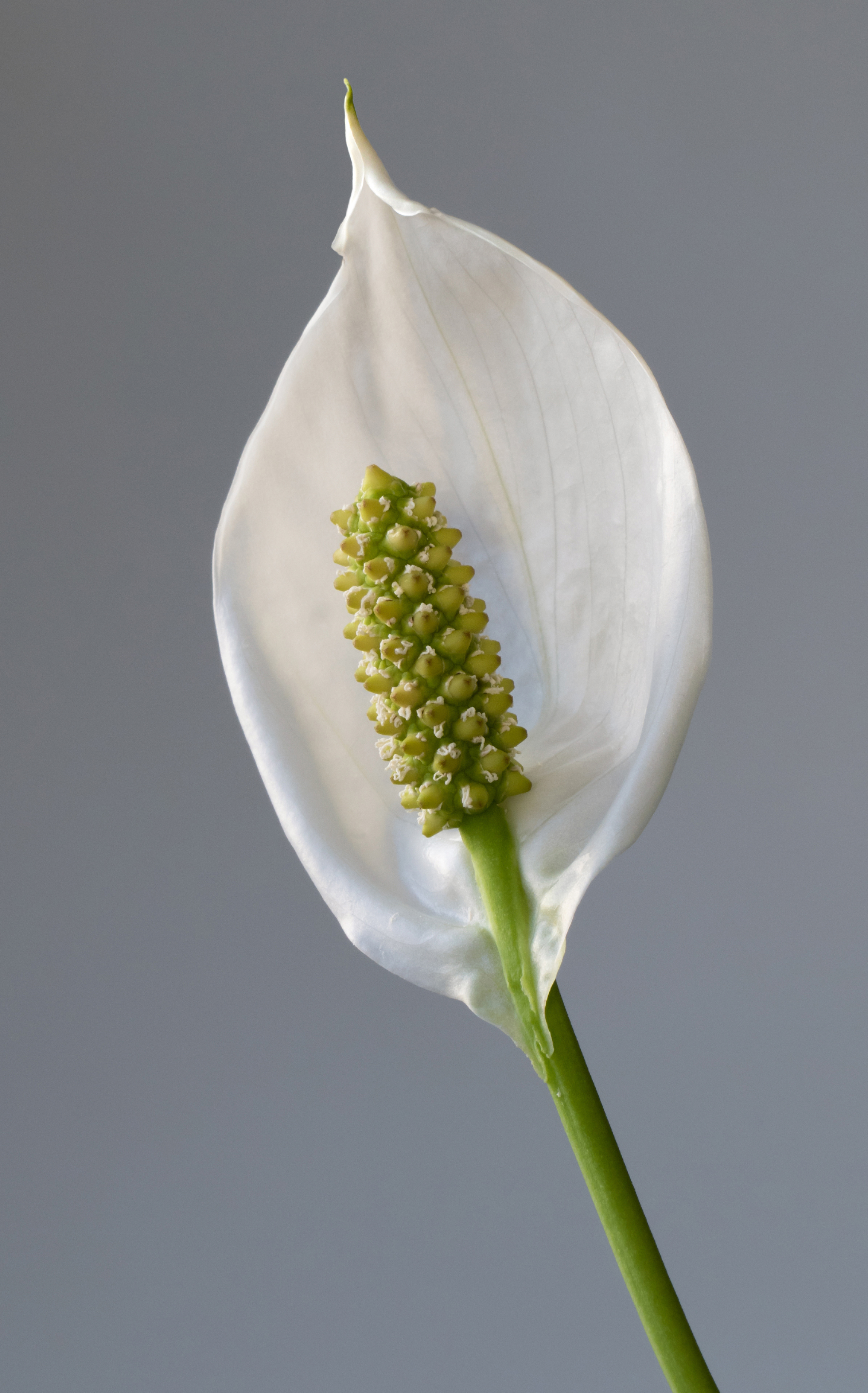 The flower of a Peace Lily (Spathiphyllum wallisii). From a potted plant in Lysekil, Sweden. The spadix on this flower is 2.7 cm (1.1 in) long.